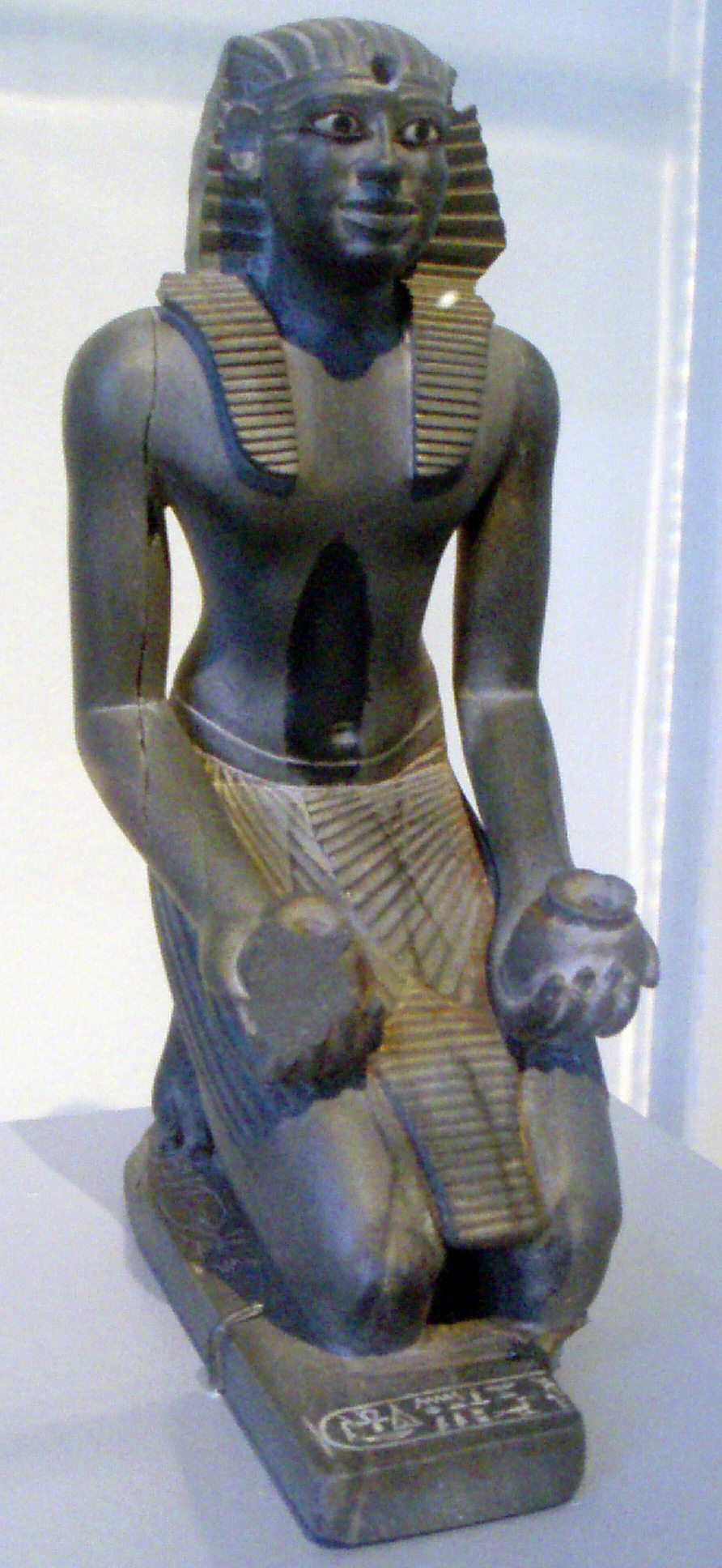 Graywacke statuette of Pepi I. Dynasty 6, circa 2388-2298 B.C.